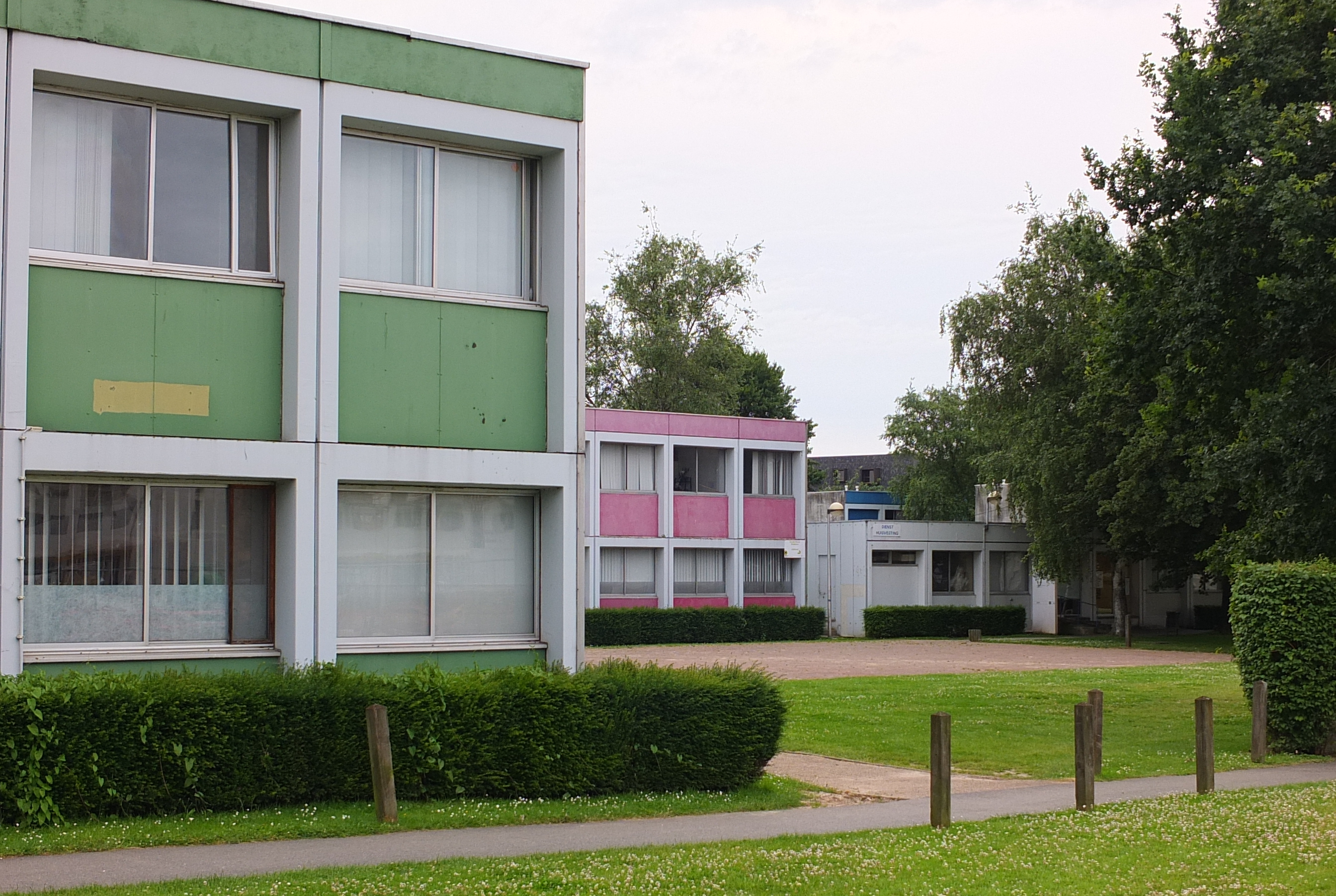 On campus student housing at campus Pleinlaan of the Vrije Universiteit Brussel. The student houses were designed by the Flemish architect Willy Van der Meeren, who used Fritz Stucjy's Variel system. He grouped the building blocks into apartments for four students. These apartments were grouped around a front garden in groups of three or six. These groups were joined in quarters with their own colour. These student houses will be replaced by new high rise student housing as of 2016.